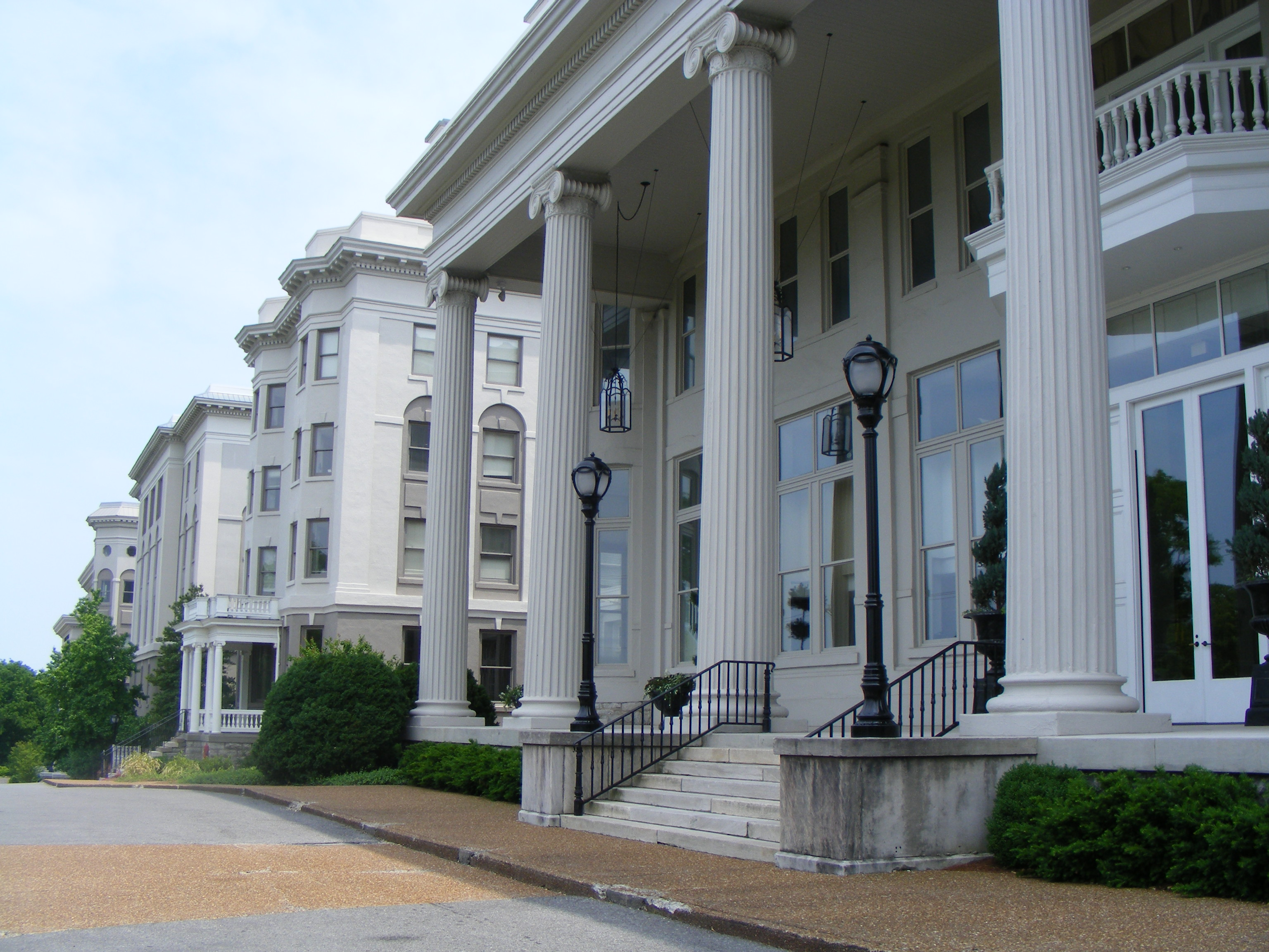 Freeman Hall at Belmont University in Nashville, Tennessee.